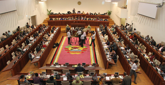 The Mozambican parliament, the Assembleia da República